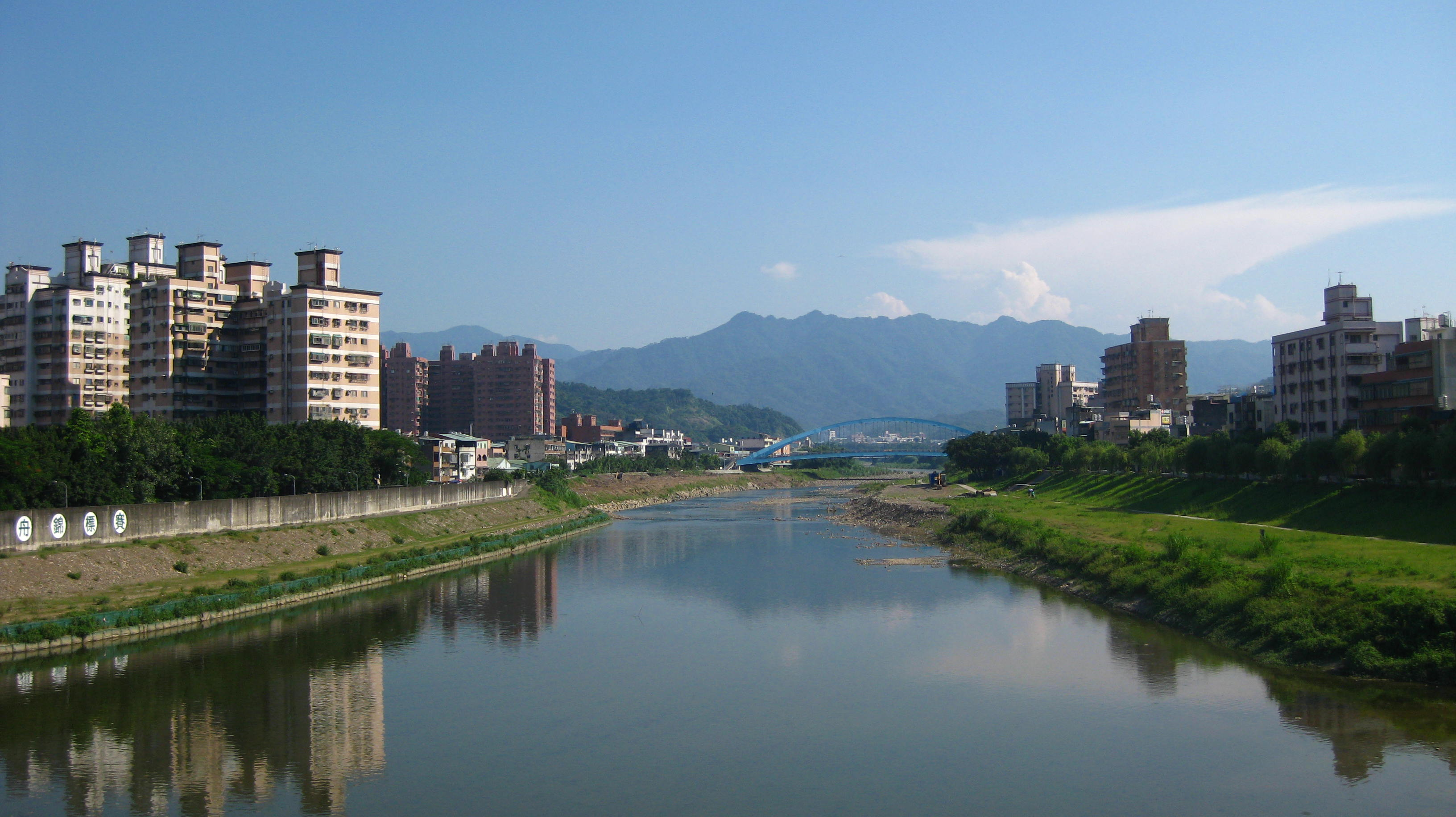 View from Changfu Bridge in Sansia, Taiwan